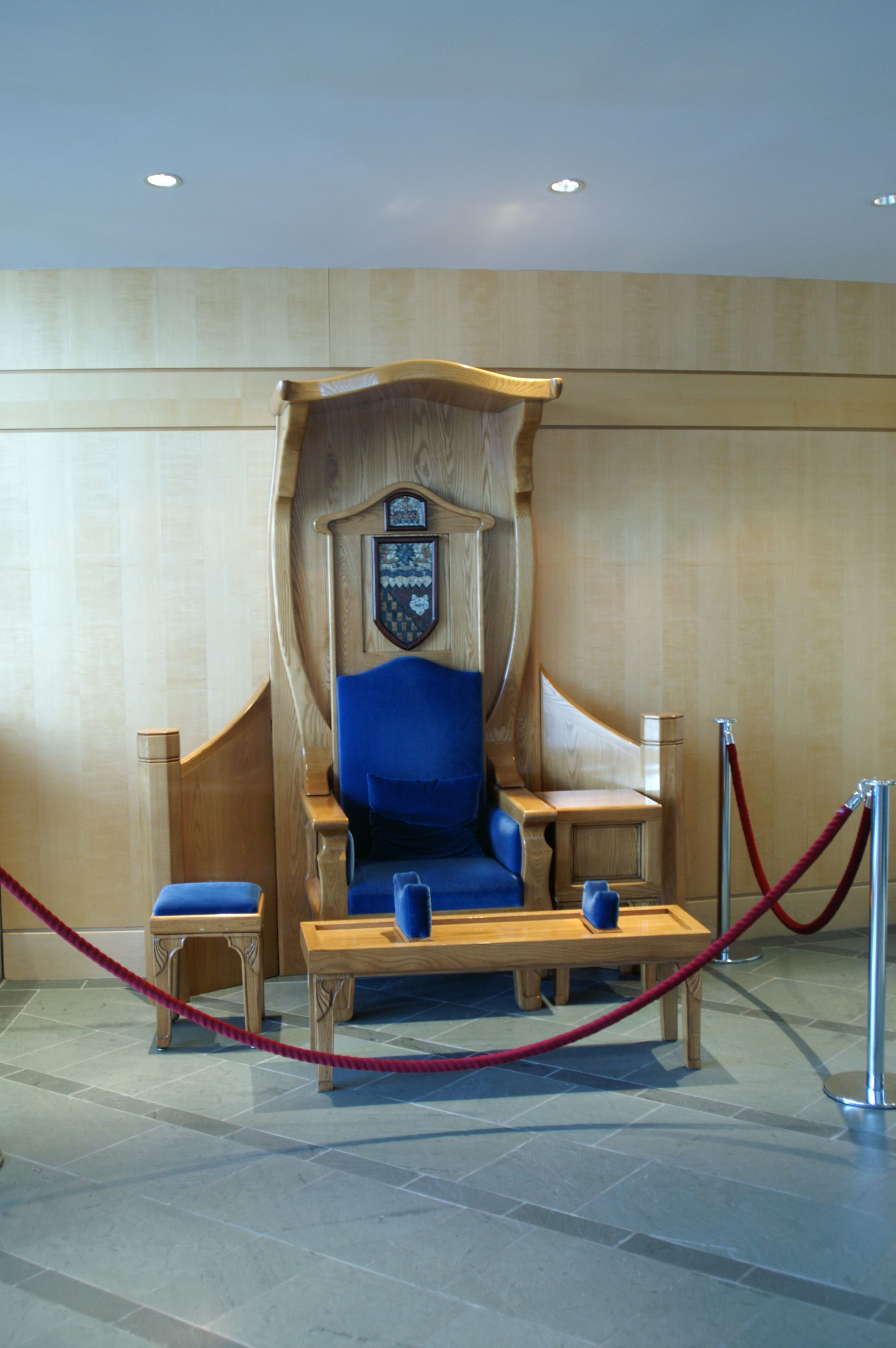 Speaker's chair at the Legislative Assembly of the Northwest Territories, Canada.